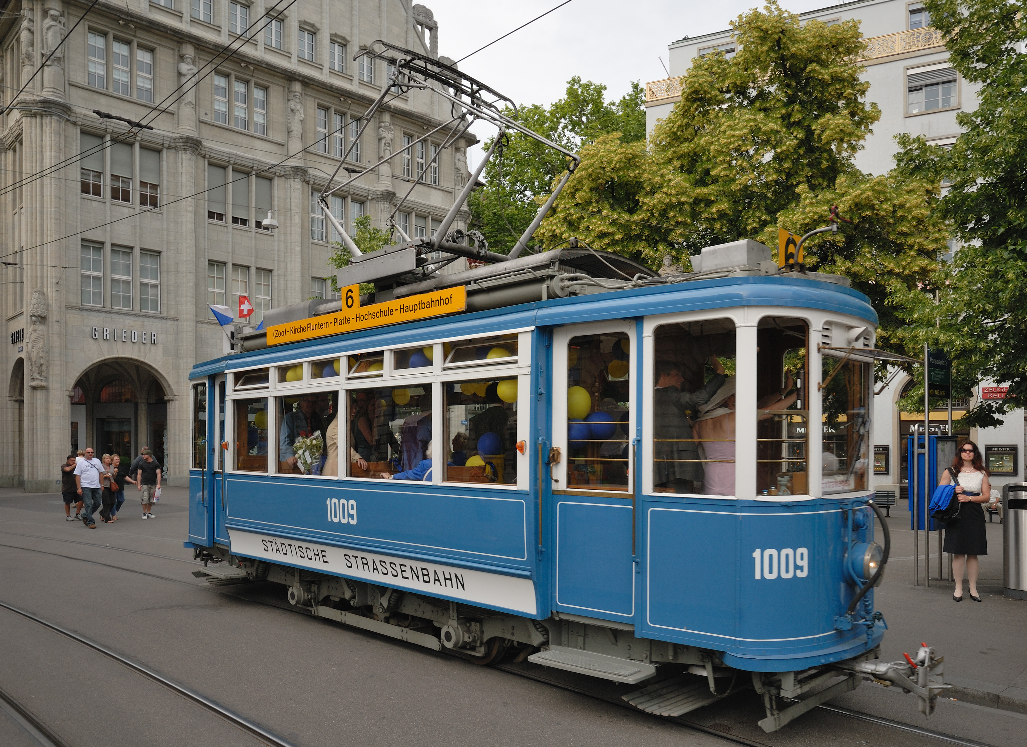 Historical tram of Verkehrsbetriebe Zürich at Paradeplatz, Zürich. At the left there is House Grieder, Bahnhofstrasse 30.